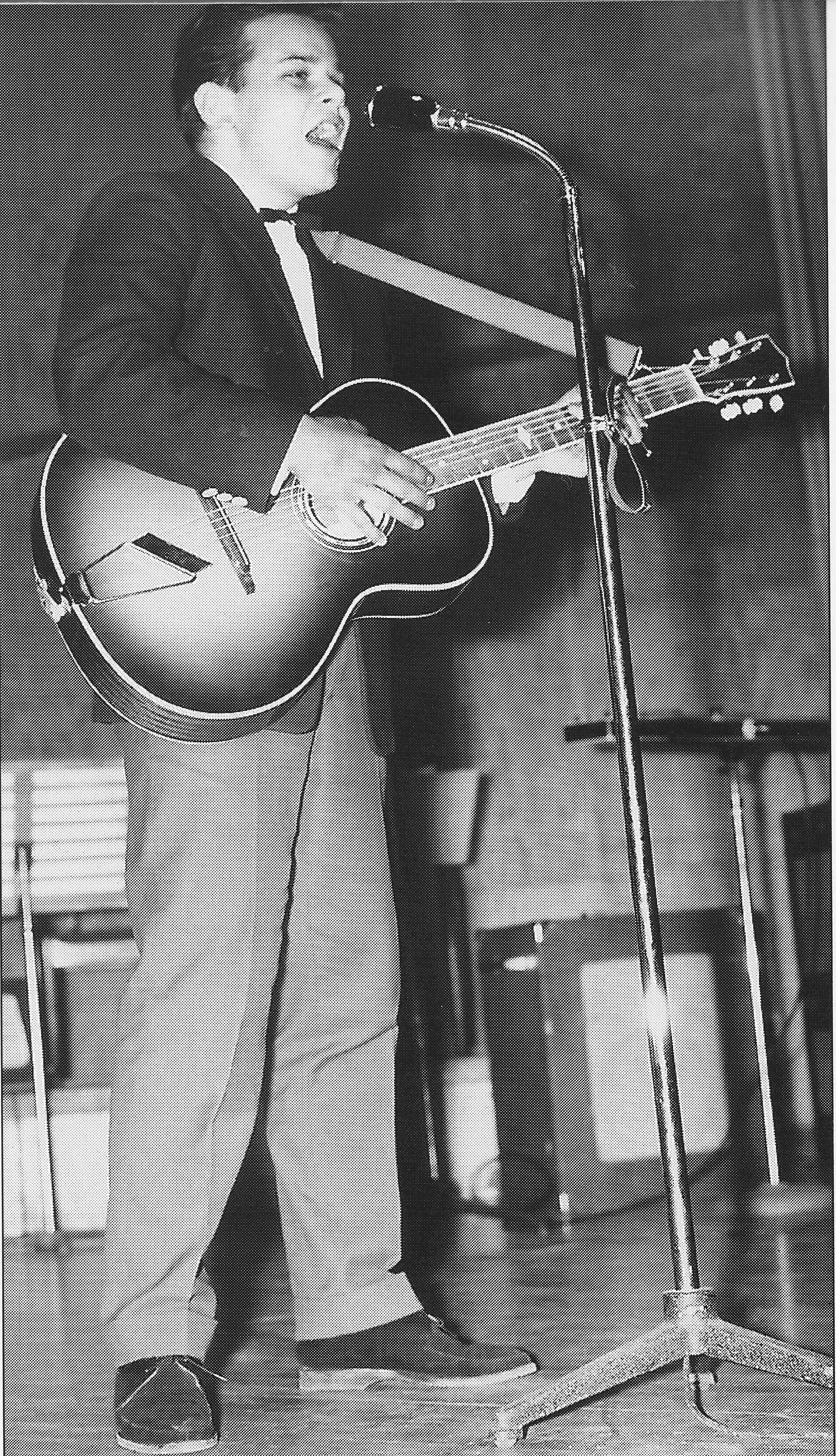 Rock-Jerry finnish singer